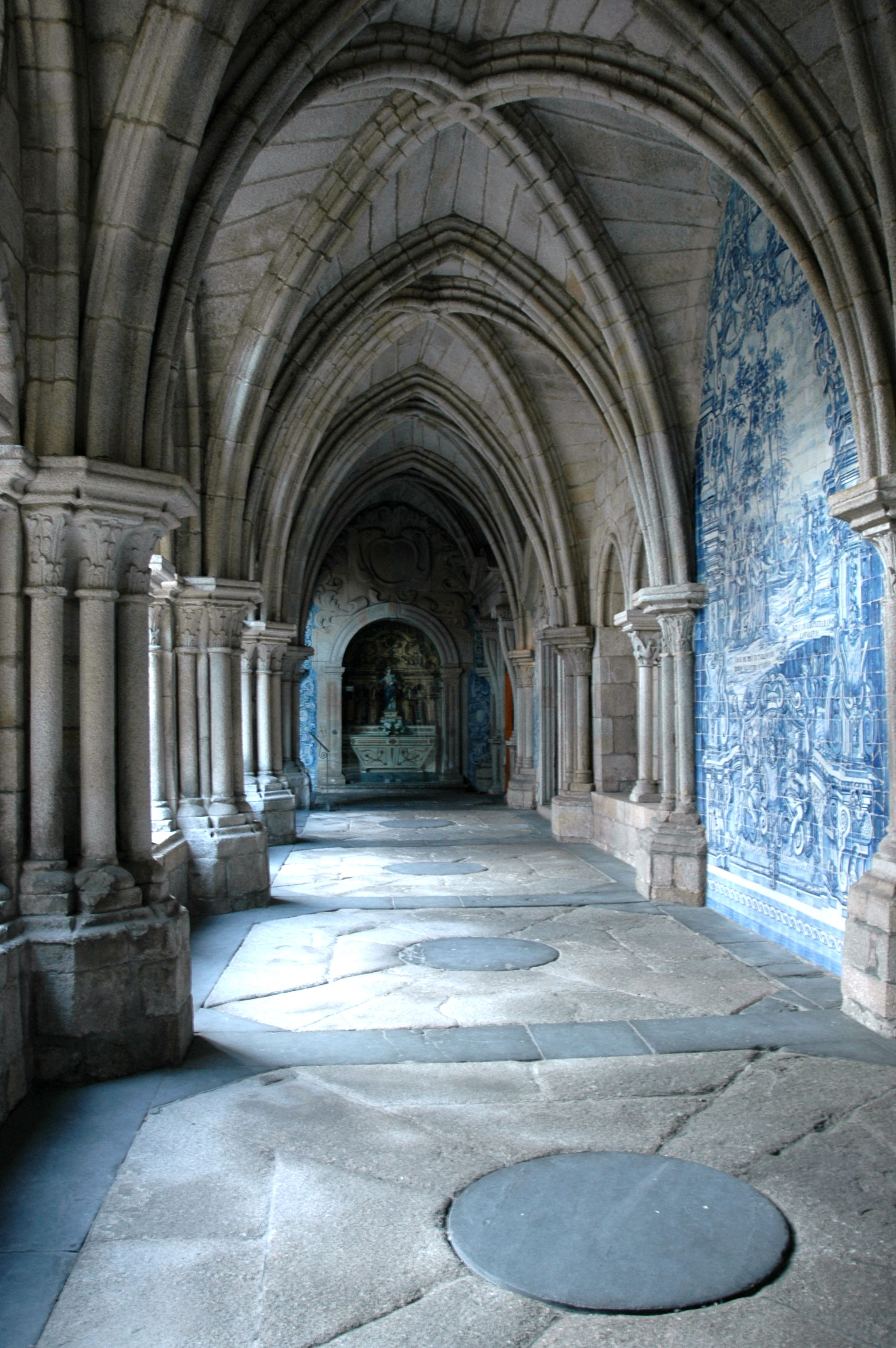 Porto - Catedral - Claustre